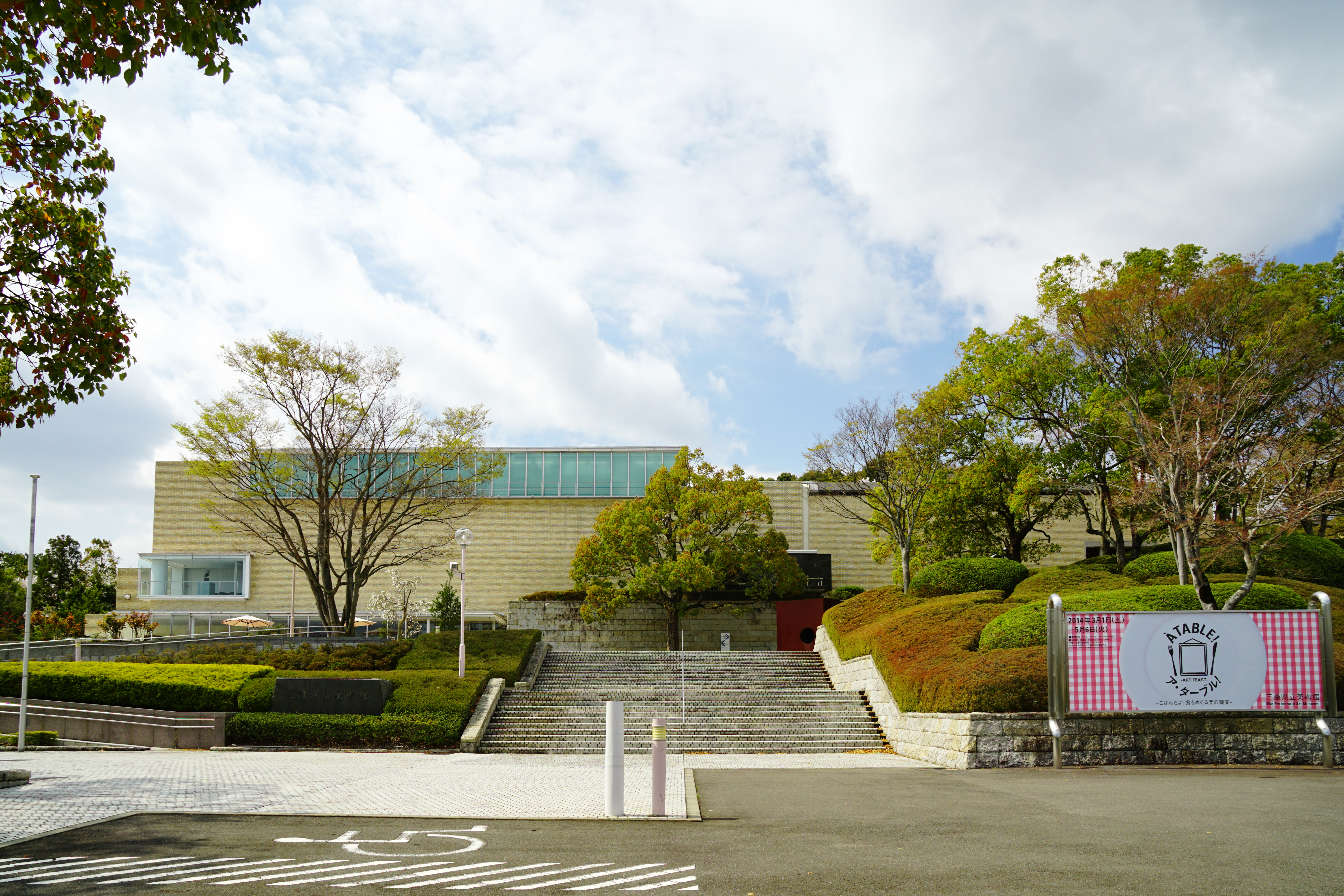 Mie Prefectural Art Museum in Tsu, Mie prefecture, Japan.